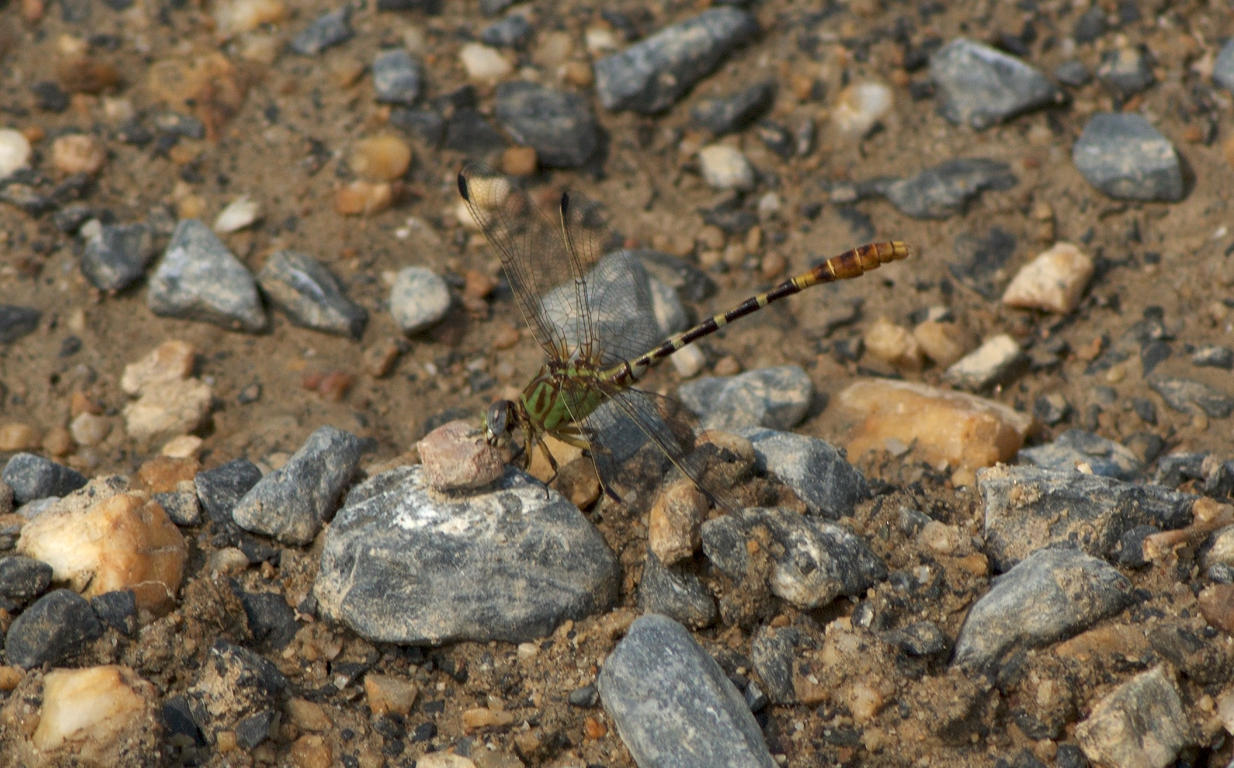 Getting minerals? Frederick County, Maryland.